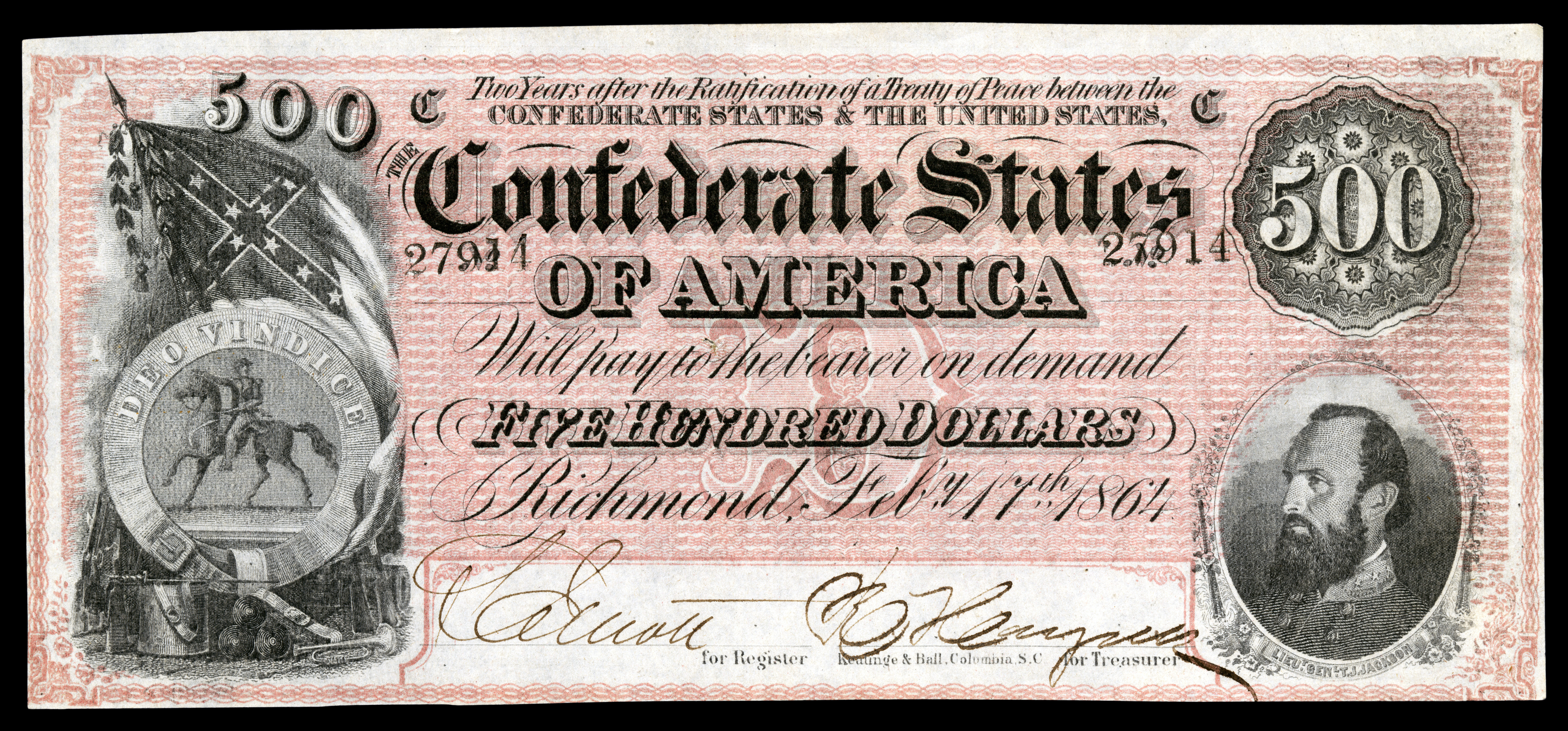 CSA-T64-$500-1864